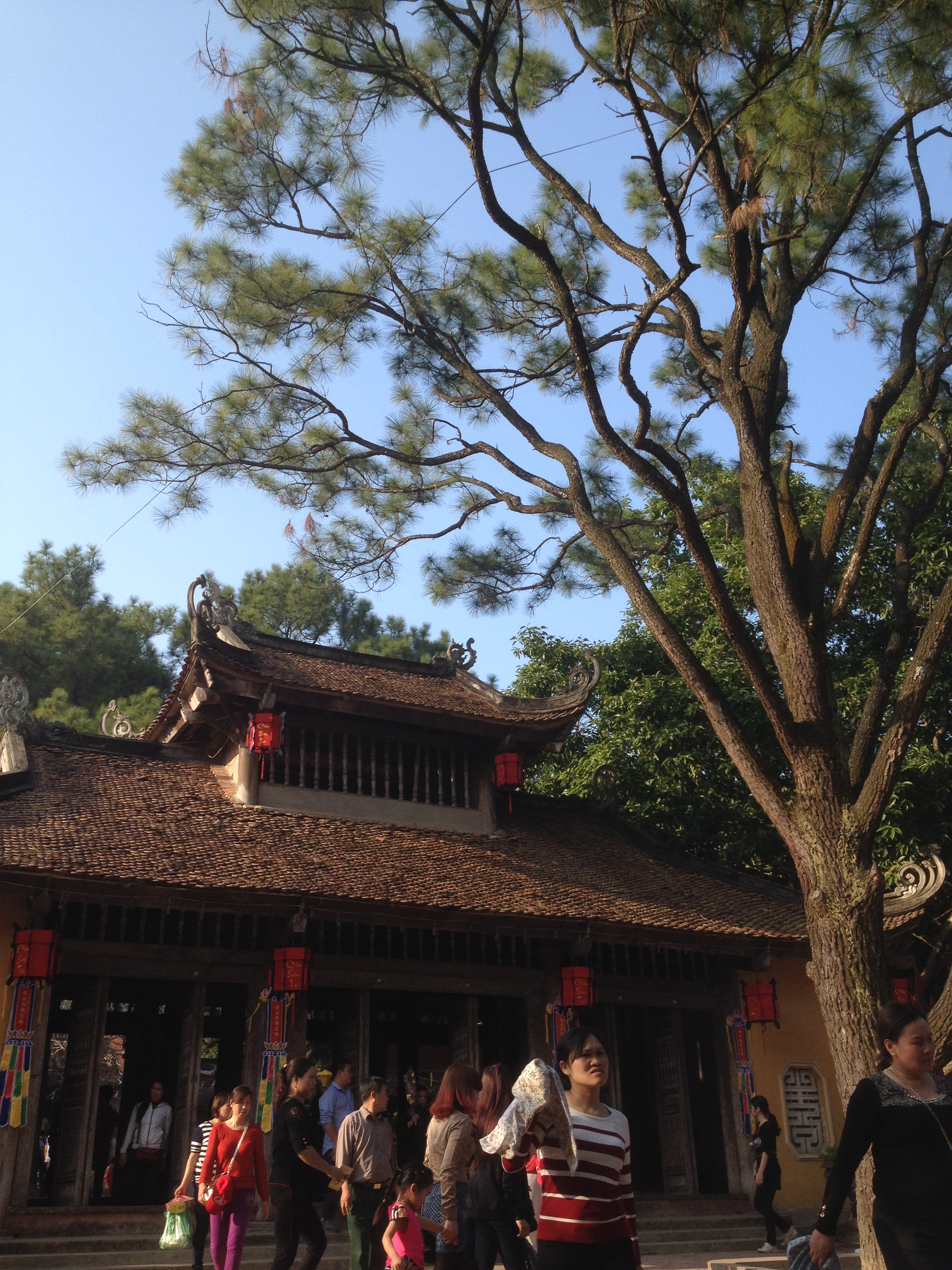 Gate of Con Son Pagoda with a big pine tree in Chi Linh Town, Hai Duong Province